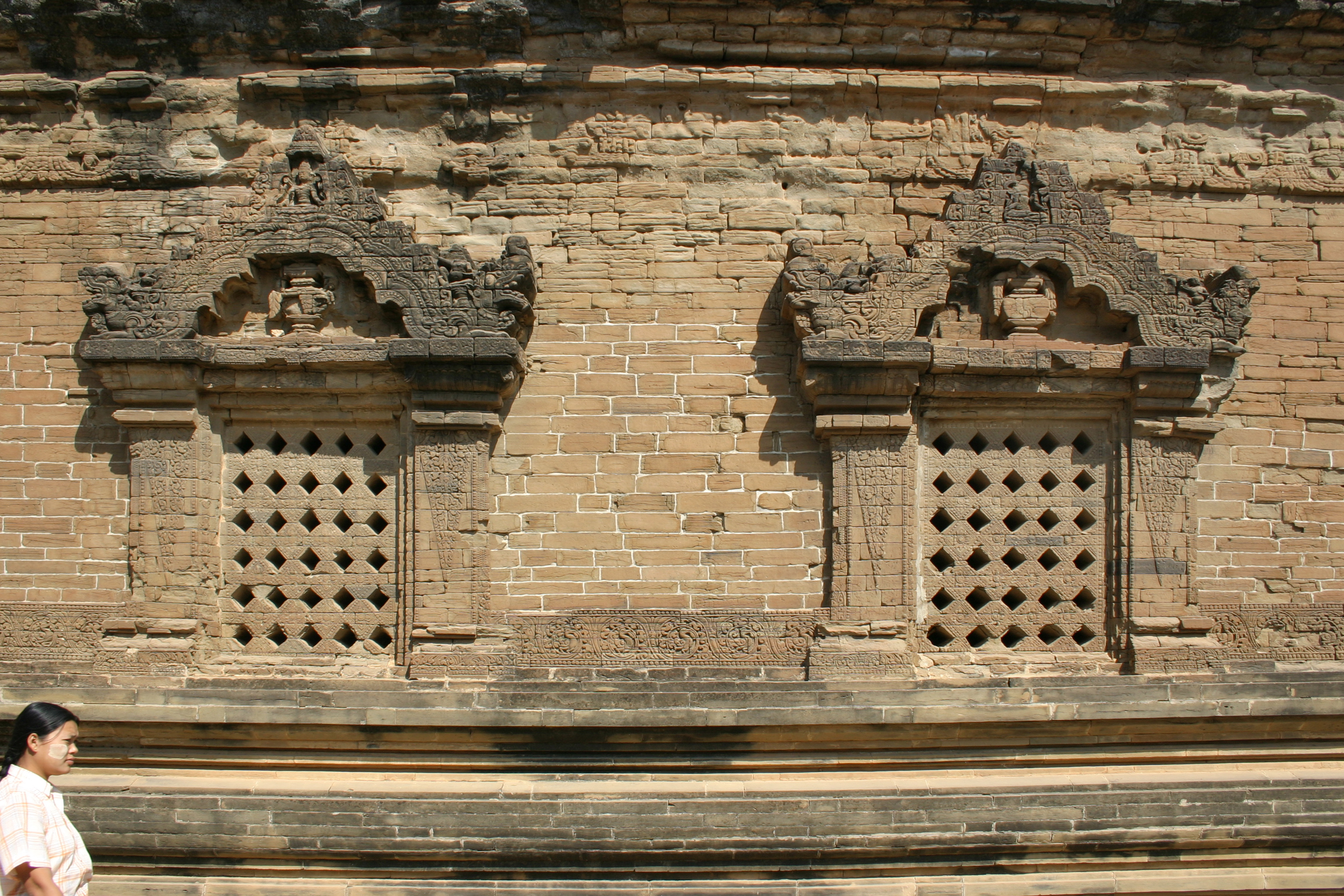 Nanpaya temple, Bagan, Myanmar.